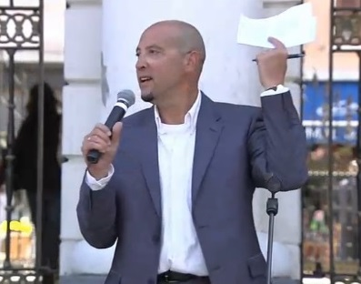 Public speech